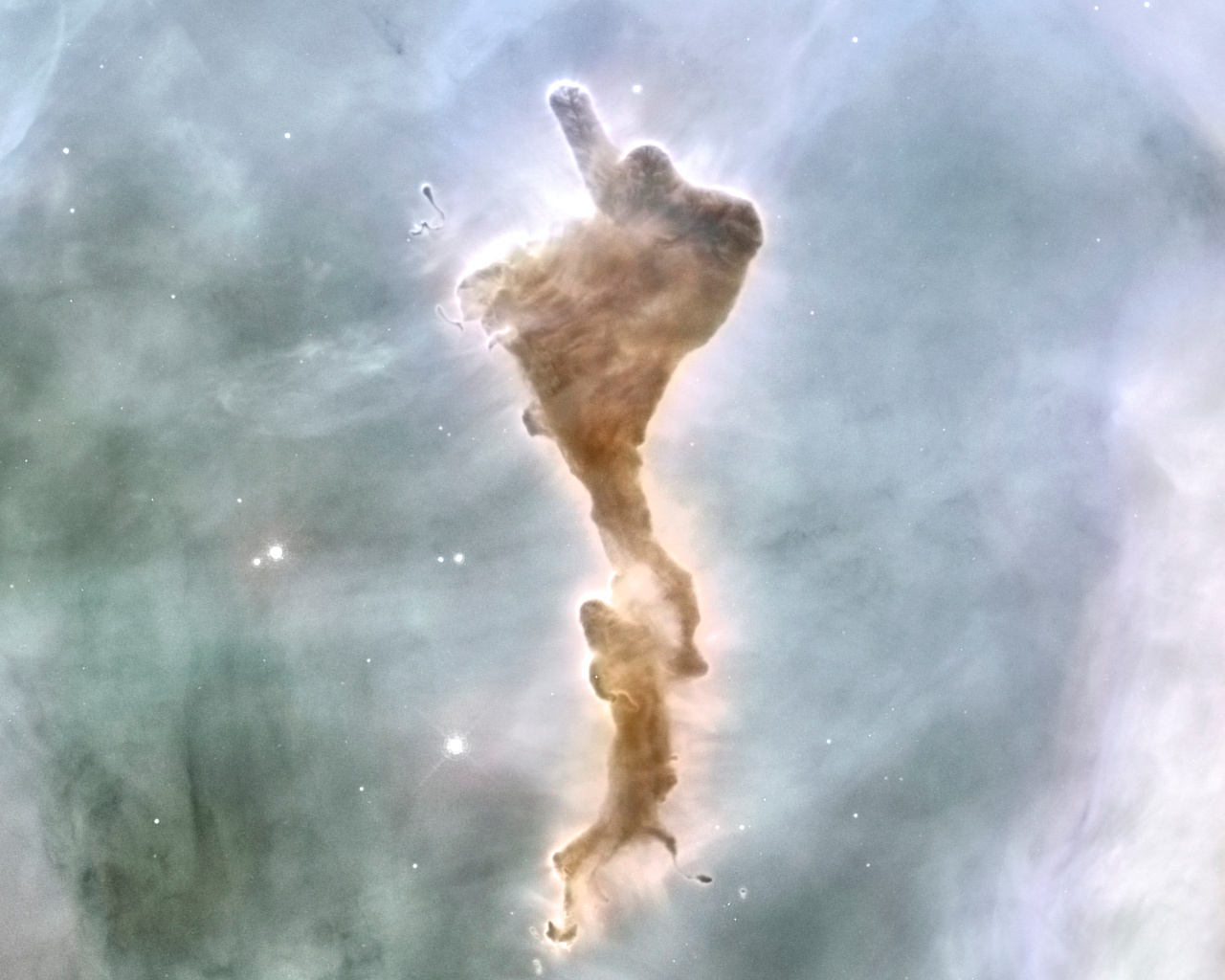 Informally named the "Finger of God" or "God's Birdie" because of its suggestive shape, this 2 light-year long dark nebula is located within the Carina Nebula.